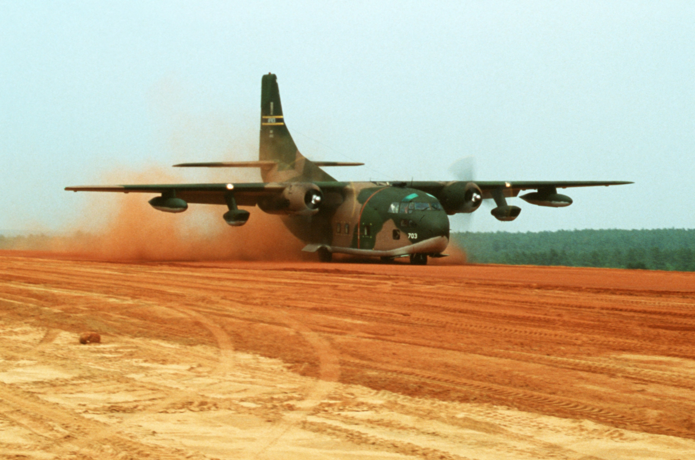 A U.S. Air Force Reserve Fairchild C-123K Provider (s/n 54-703) lands on an unimproved runway during exercise "Volant Rodeo '79" at Pope Air Force Base, North Carolina (USA), on 3 June 1979. This aircraft was later sold to El Salvador (s/n FAES120) and was destroyed at San Miguel Airport on 21 March 1984.